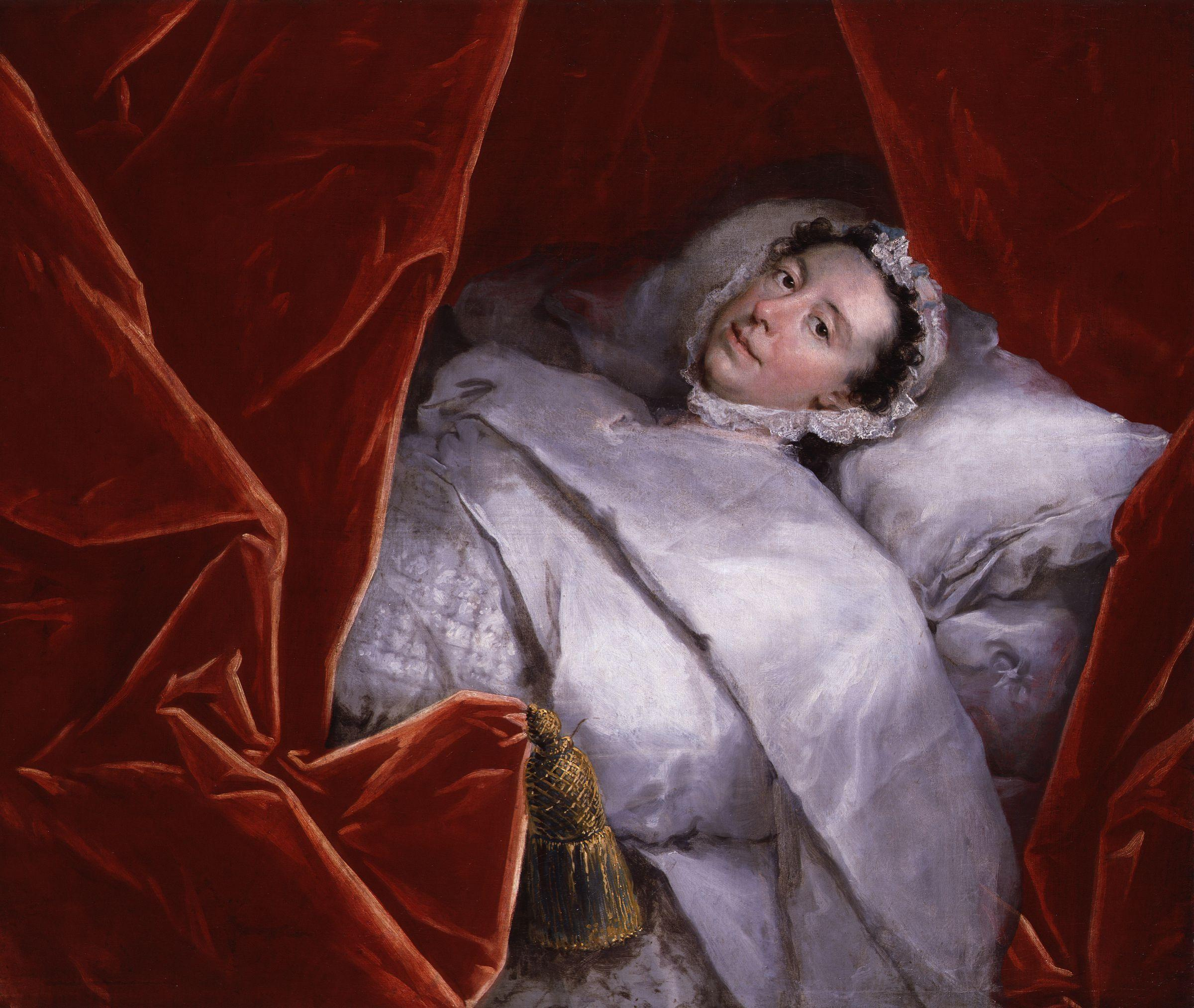 Sick-bed portrait of Peg Woffington (1720-1760) after she collapsed on stage and was paralysed in 1757. All images in this batch are listed as "unknown author" by the NPG, who is diligent in researching authors, and was donated to the NPG before 1939 according to their website. Given to the National Portrait Gallery, London in 1881.